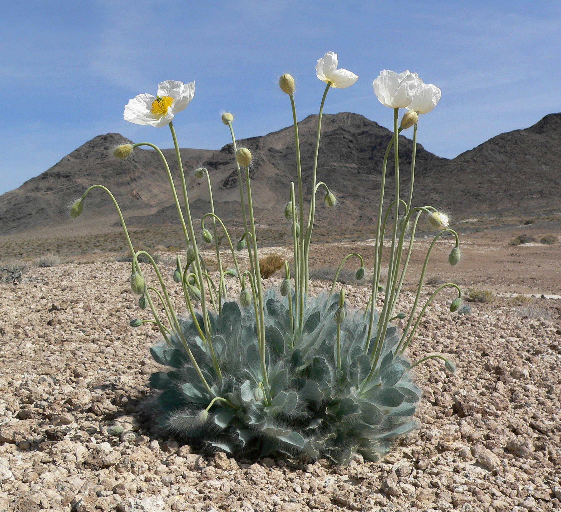 Arctomecon merriamii in gypsum area about 600m SSW of Devils Hole, Ash Meadows, southern Nevada